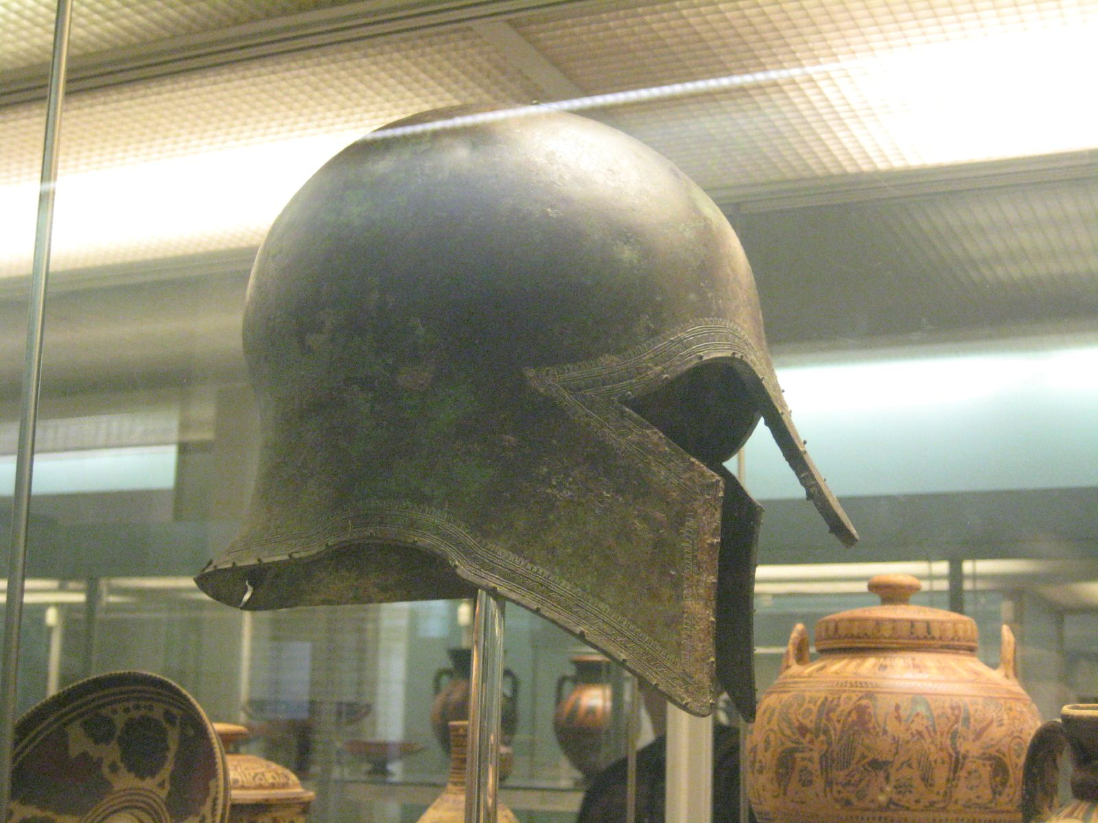 Greek, perhaps Corinthian, about 650 - 570 BC. Uncovered at the Sanctuary of Zeus at Dodona in northwest Greece. Inscribed "OLUMP" on the right cheek-guard.